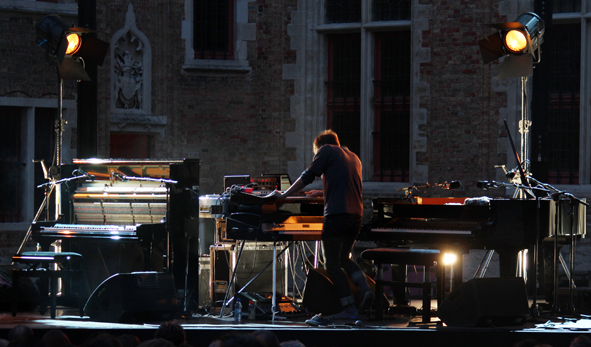 Concert du 31 juillet 2014 en plein air dans la cour du musée Gruuthuse de Bruges.